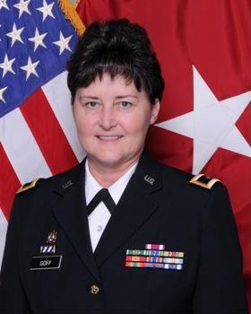 Brig. Gen. Darlene M. Goff